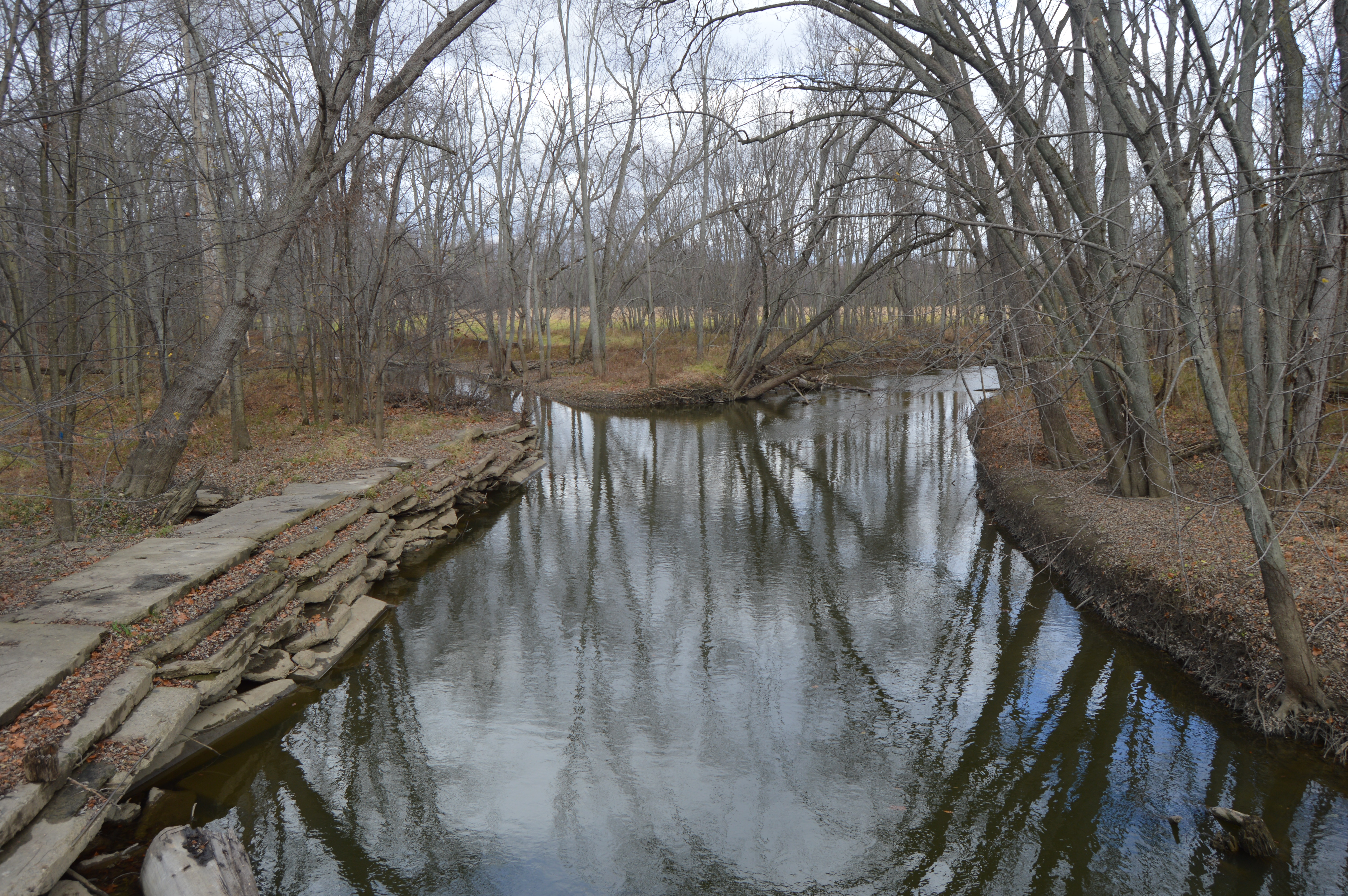 Looking northward (upstream) along the St. Joseph River from the Road N bridge in far southern Bridgewater Township, Williams County, Ohio, United States.